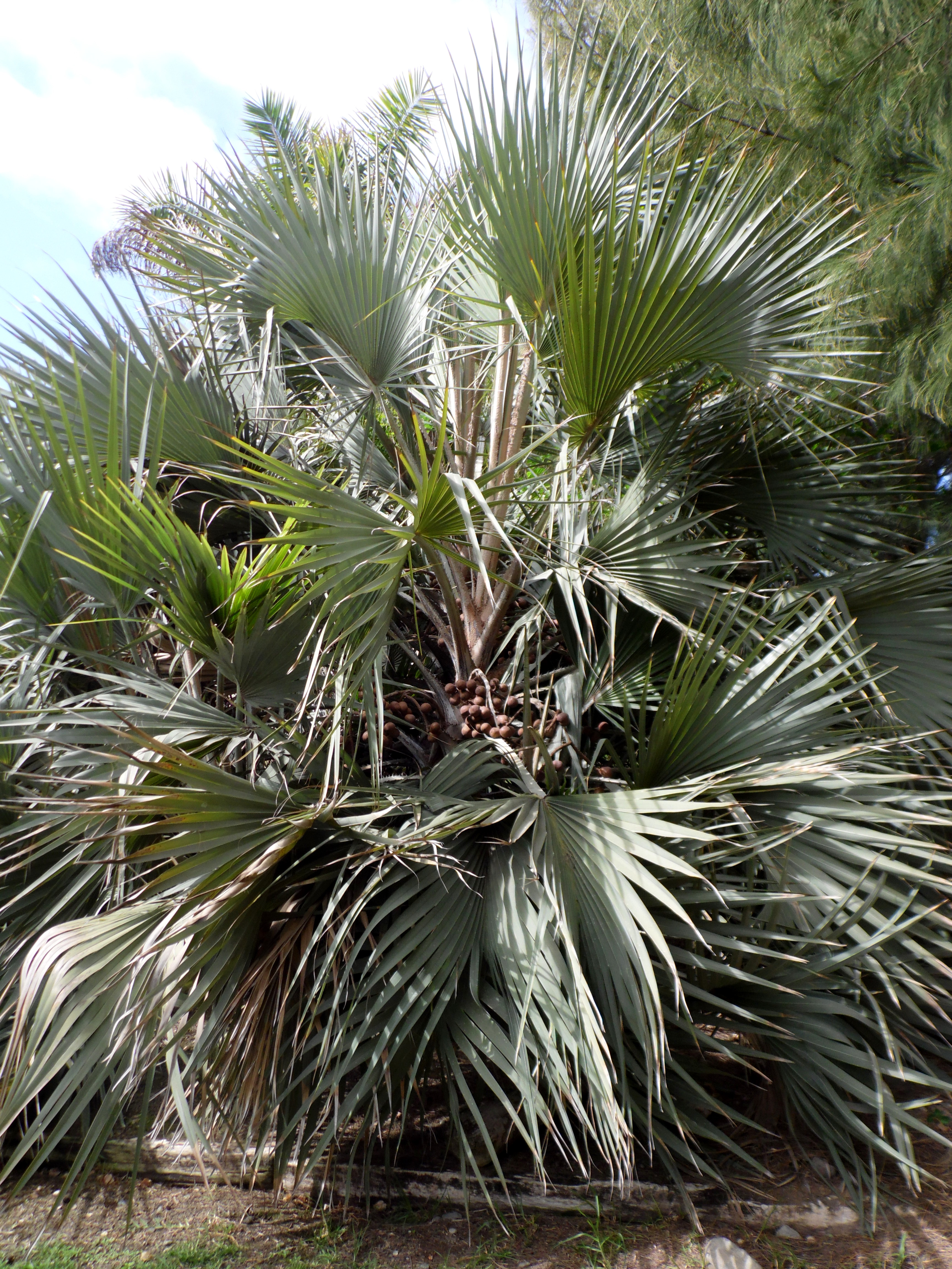 Hyphaene coriacea in Parque Botánico de Maspalomas, Gran Canaria